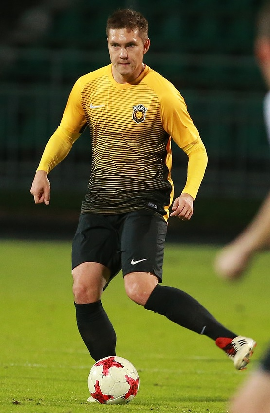 Aleksei Rebko with FC Ararat Moscow in a game against FC Torpedo Moscow.